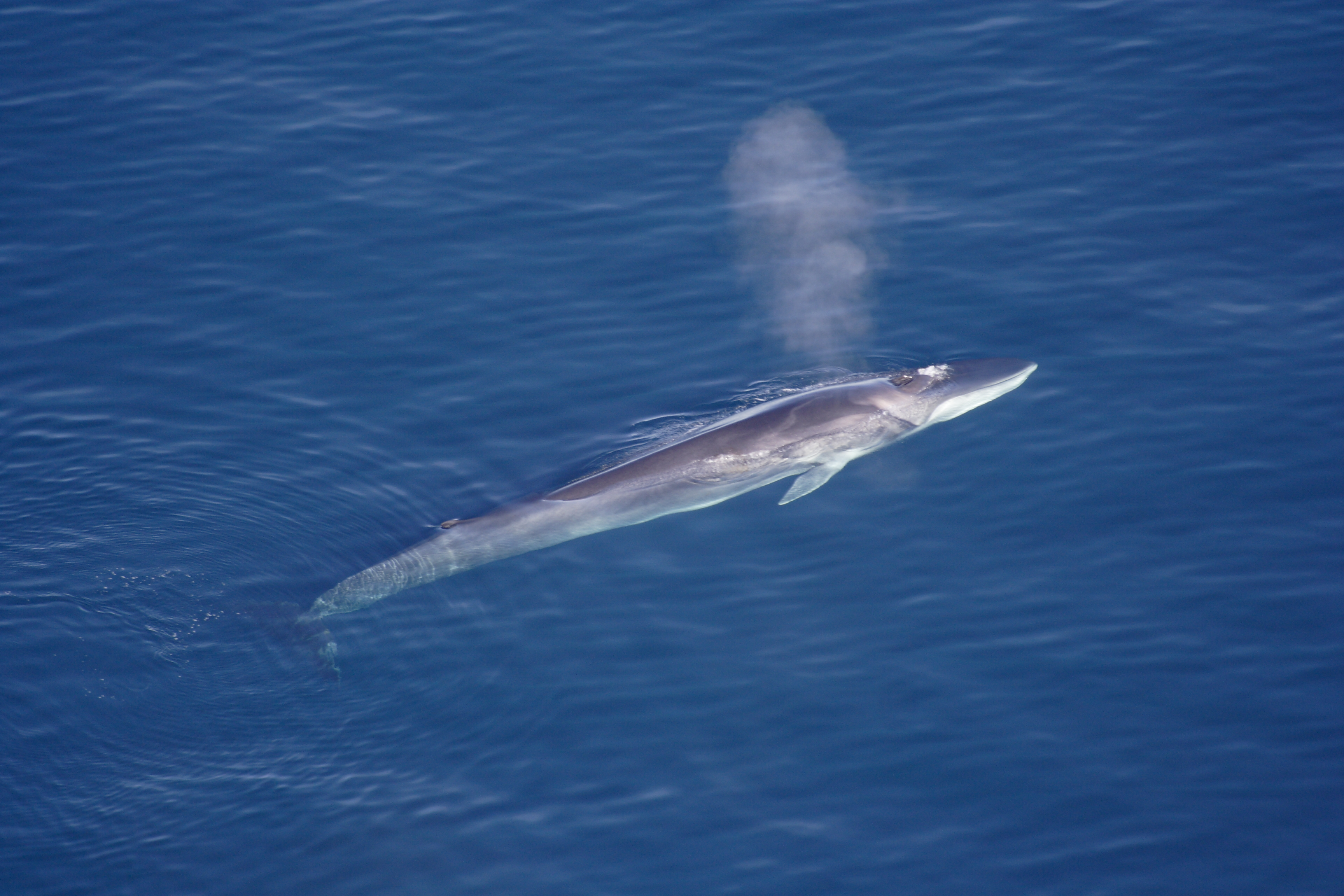 Fin whale (Balaenoptera physalus) exhaling, off Greenland